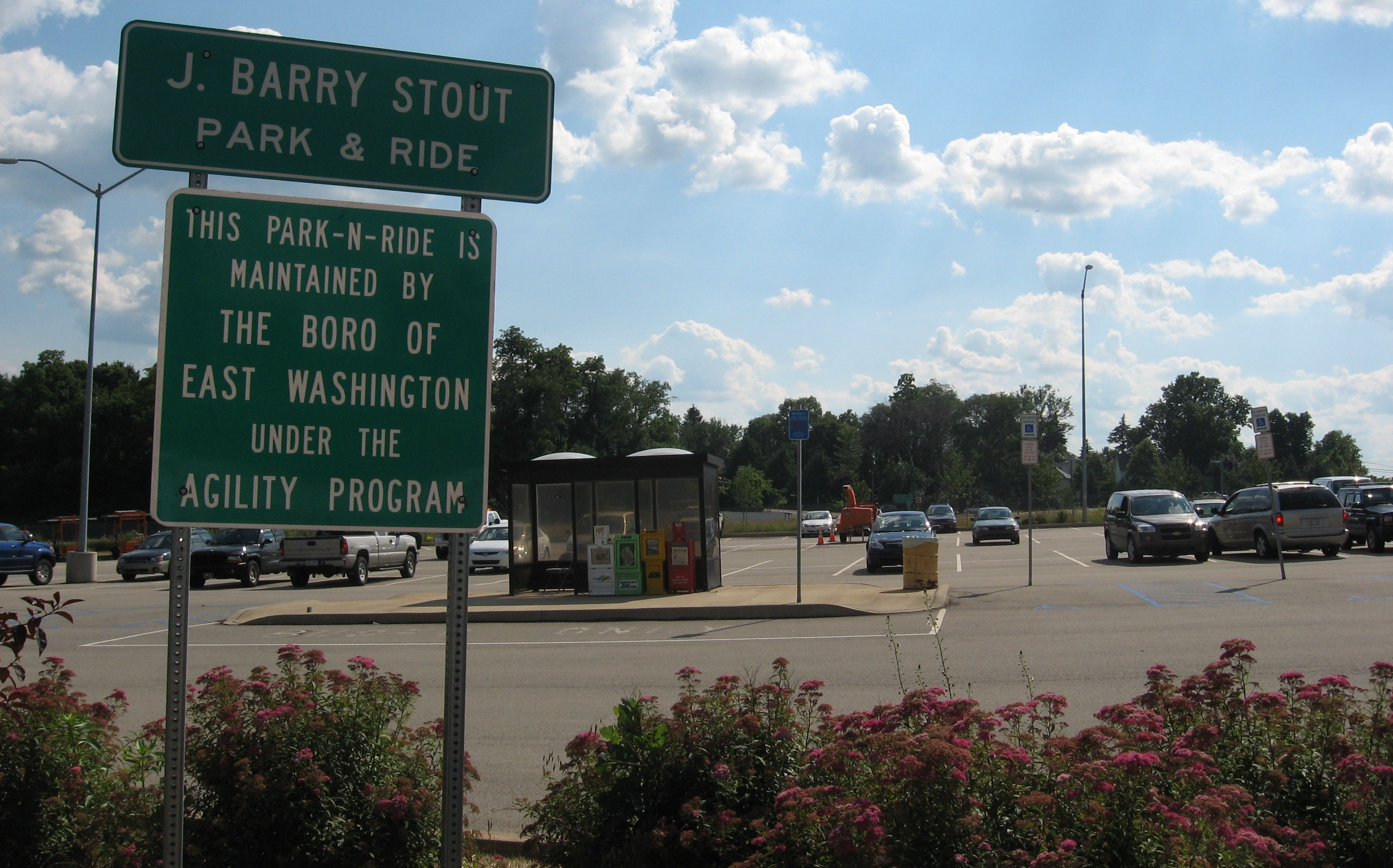 The J. Barry Stout Park and Ride in South Strabane Township 40°10′46.2″N 80°13′21.6″W / 40.1795°N 80.222667°W